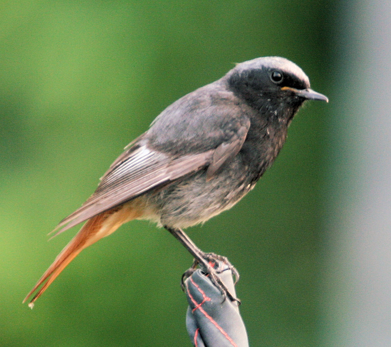 Black Redstart (Phoenicurus ochruros) male